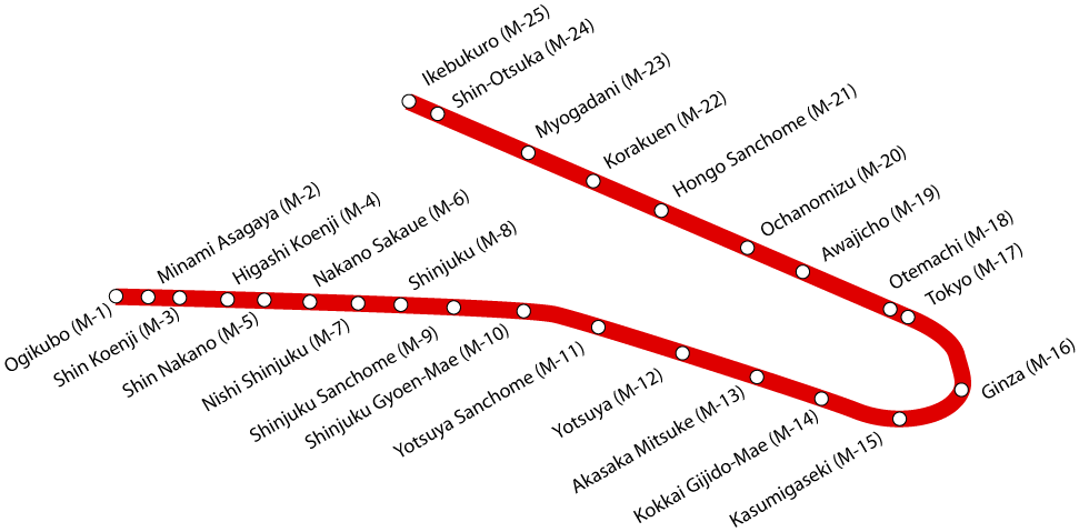 Tokyo Metro Marunouchi Line I drew this map and contribute my rights in it to the public domain.